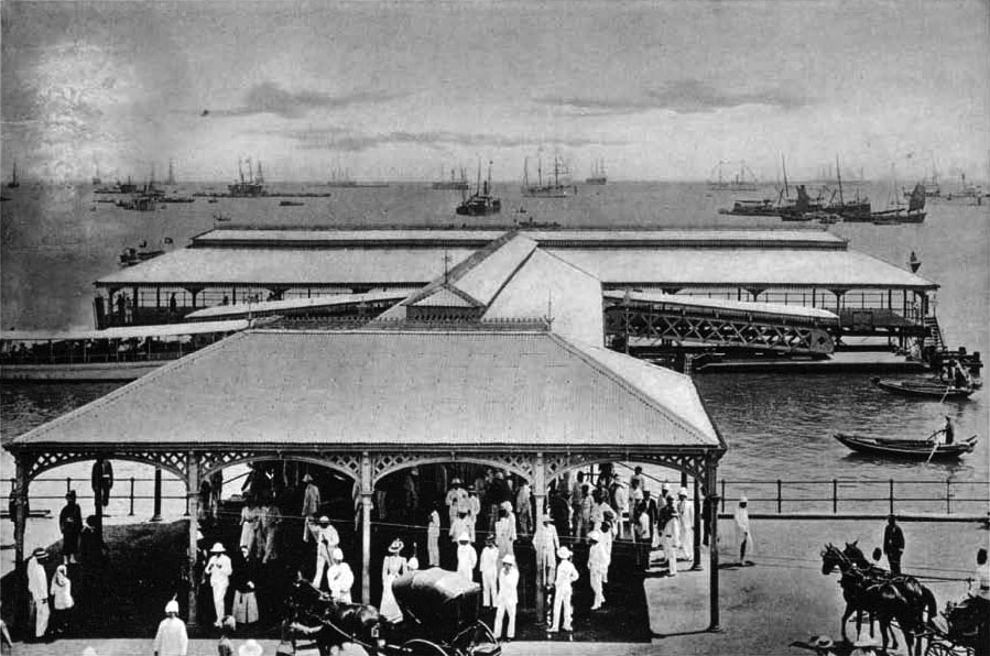 Johnston's Pier, Singapore: completed on 13 March 1856, this jetty cum landing platform stood opposite Fullerton Square. It was torn down on 3 June 1933.[1]